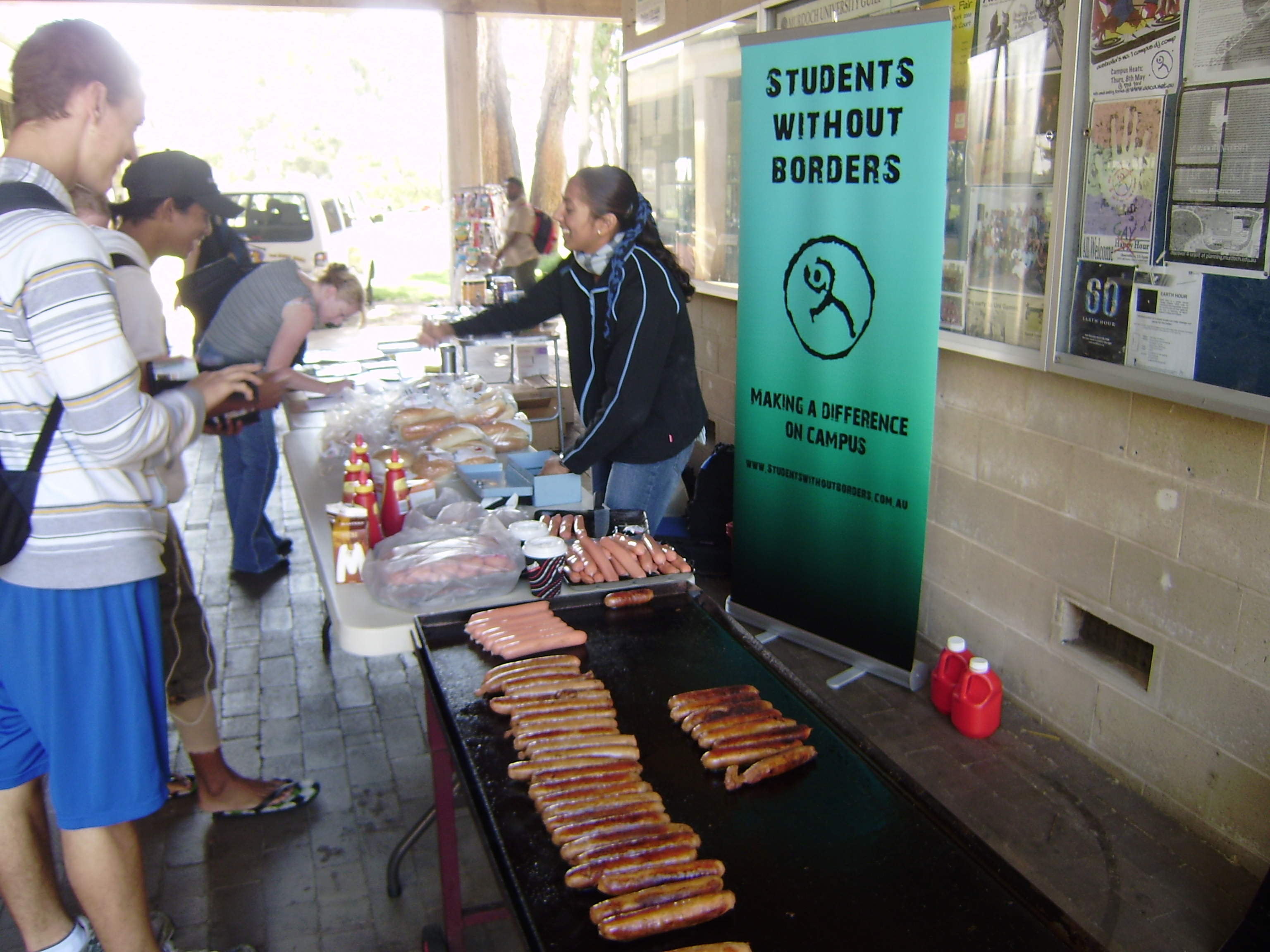 guild pics